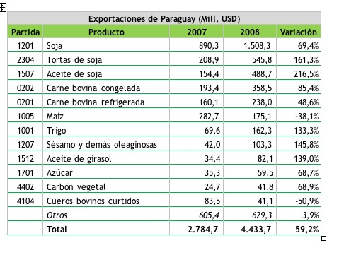 Paraguay Ministerio de Industria y Comercio / Riedex publicacion : graph of increase 2007 - 2008 of the 12 most important export goods